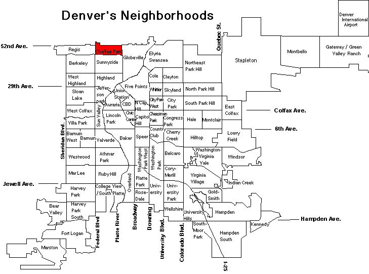 Neighborhood map of Denver, Colorado, USA highlighting the Chaffee Park neighborhood